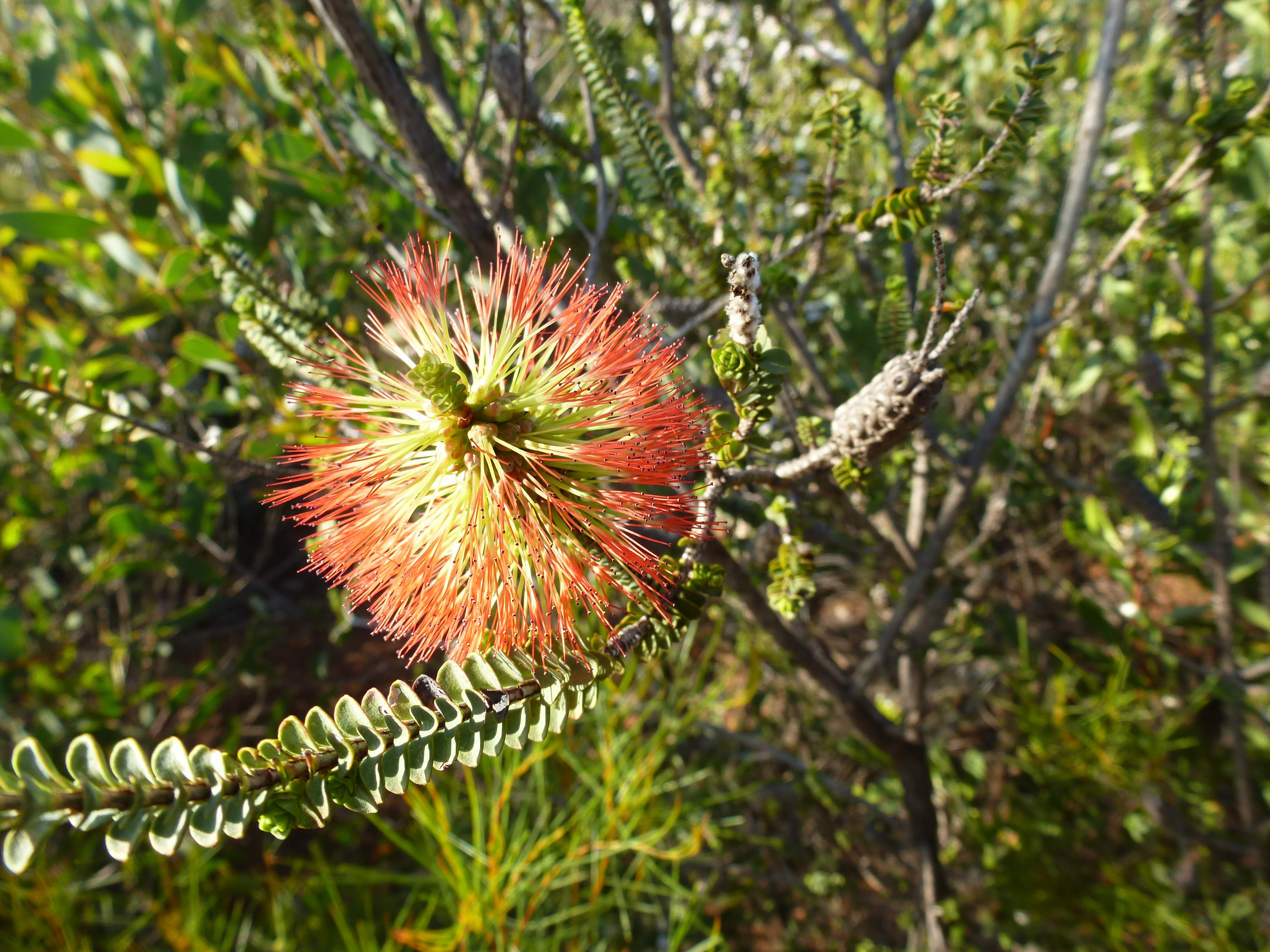 Beaufortia orbifolia growing on the Ravensthorpe Range